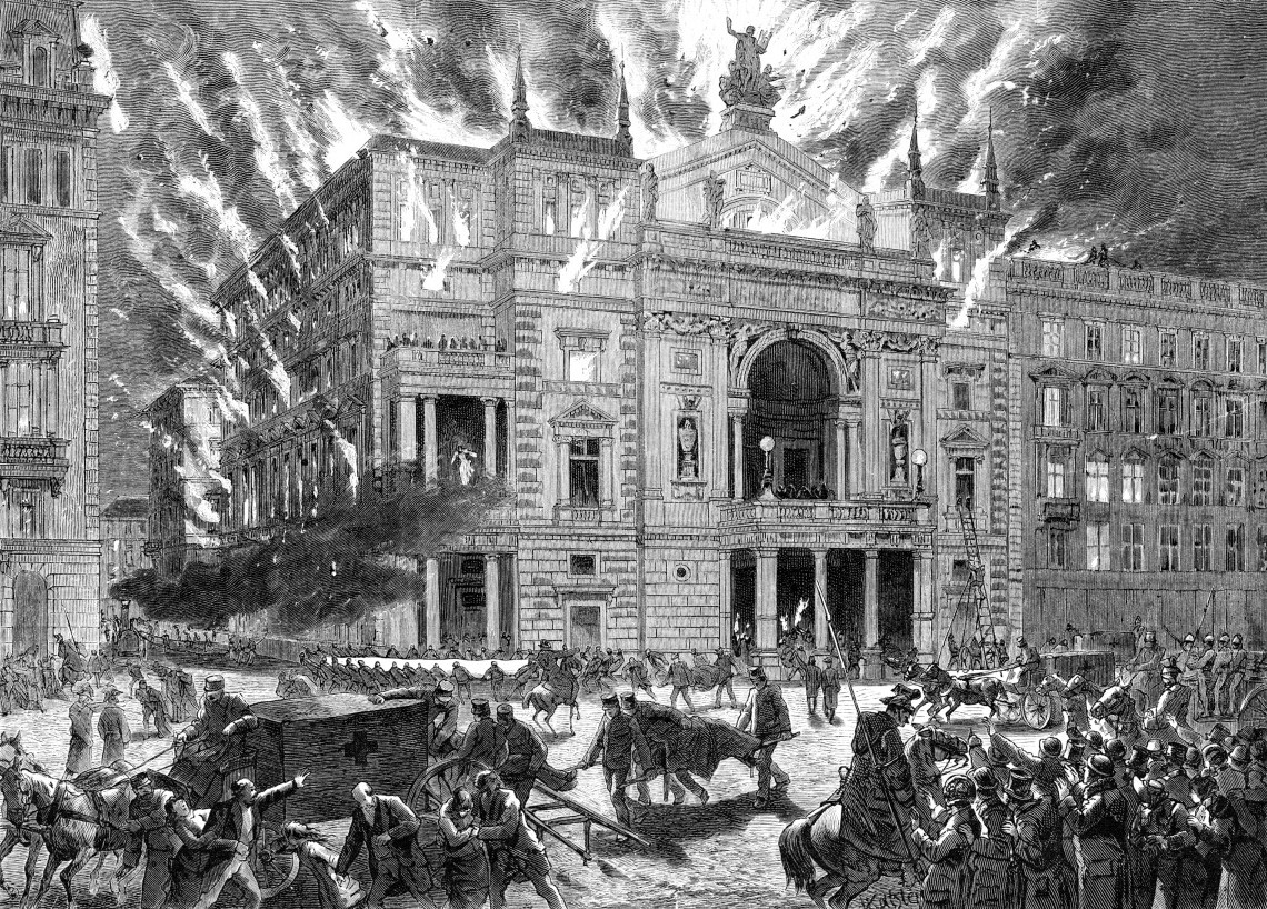 The fire in Vienna's Ring Theatre in 1881